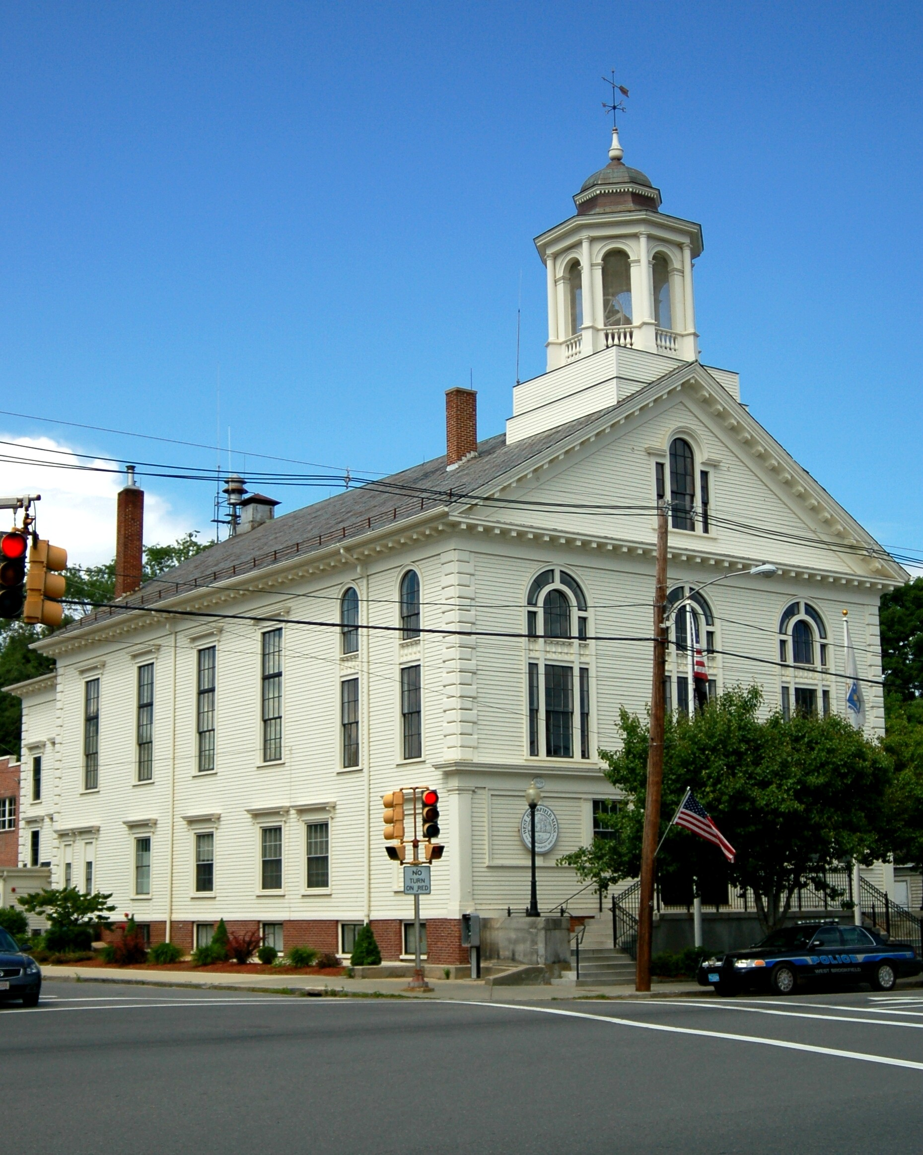 Photo uploaded by author, Richard B. Johnson